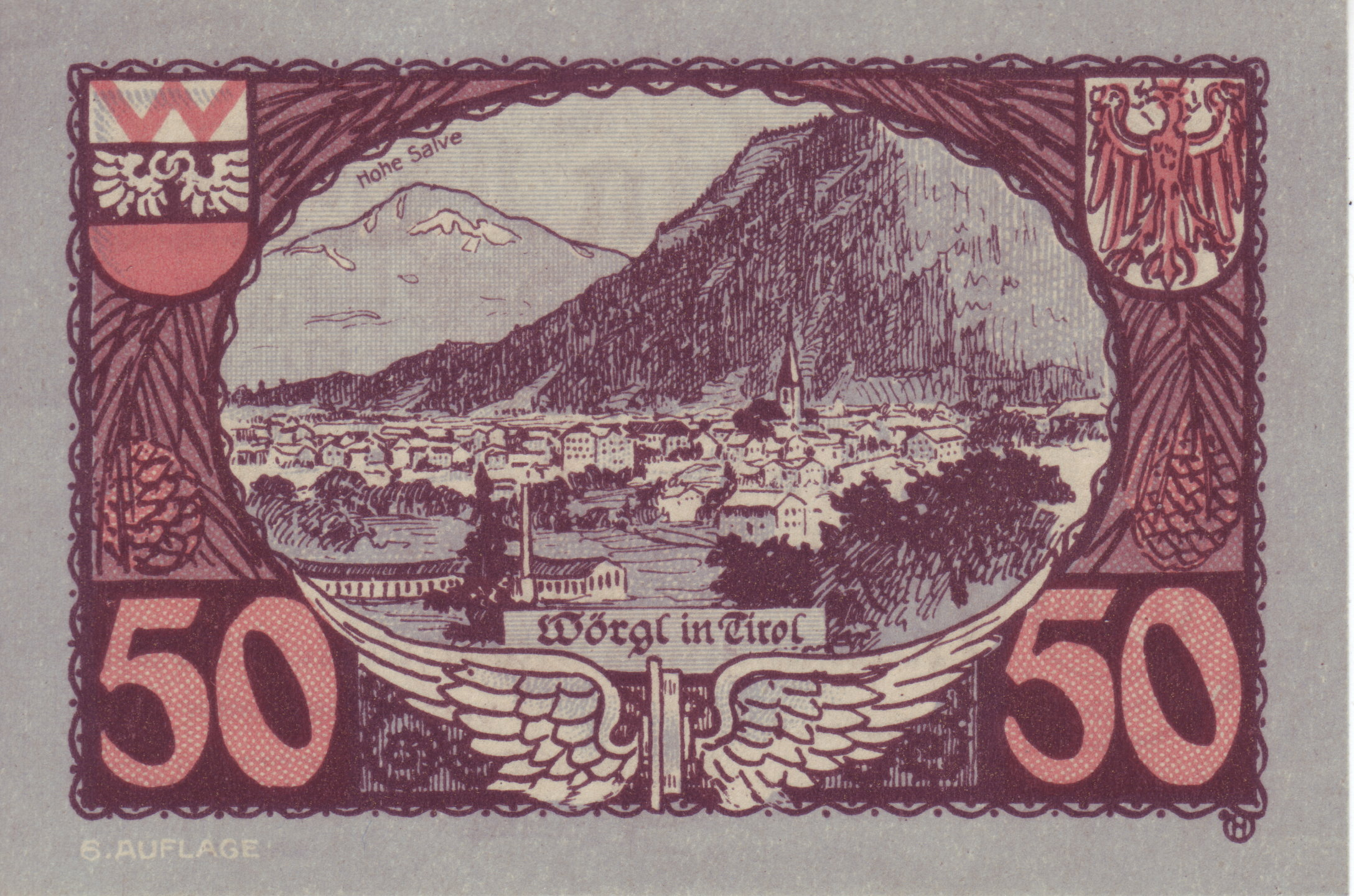 The 50 Heller - bank note ("Wörgler Notgeld") shows a view of the town of Wörgl.